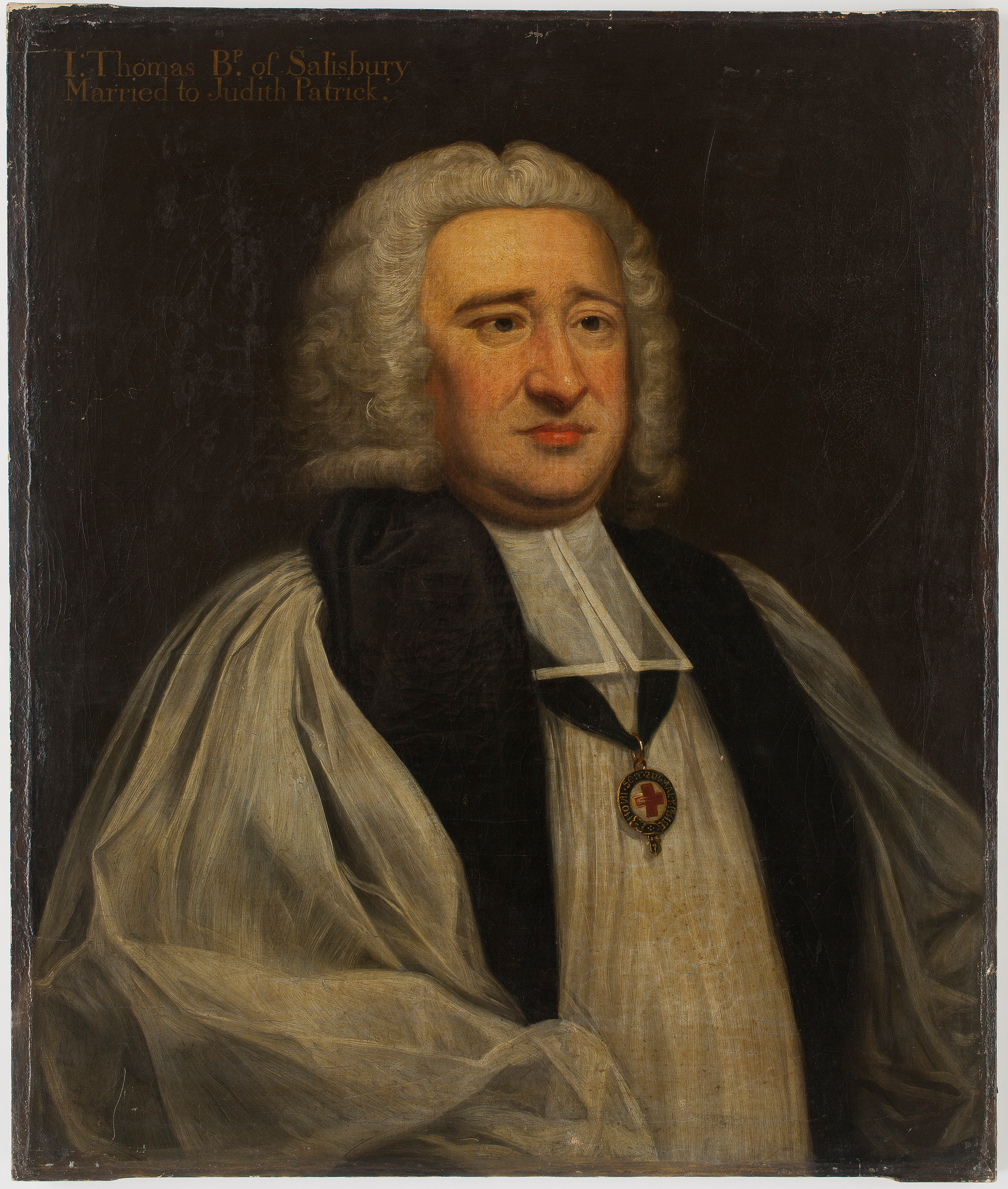 John Thomas (1691-1766), bishop of Salisbury. Painted by a unknown artist, after 1757, the year he became Chancellor of the Order of the Garter. The insignia of the order can be seen around his neck.